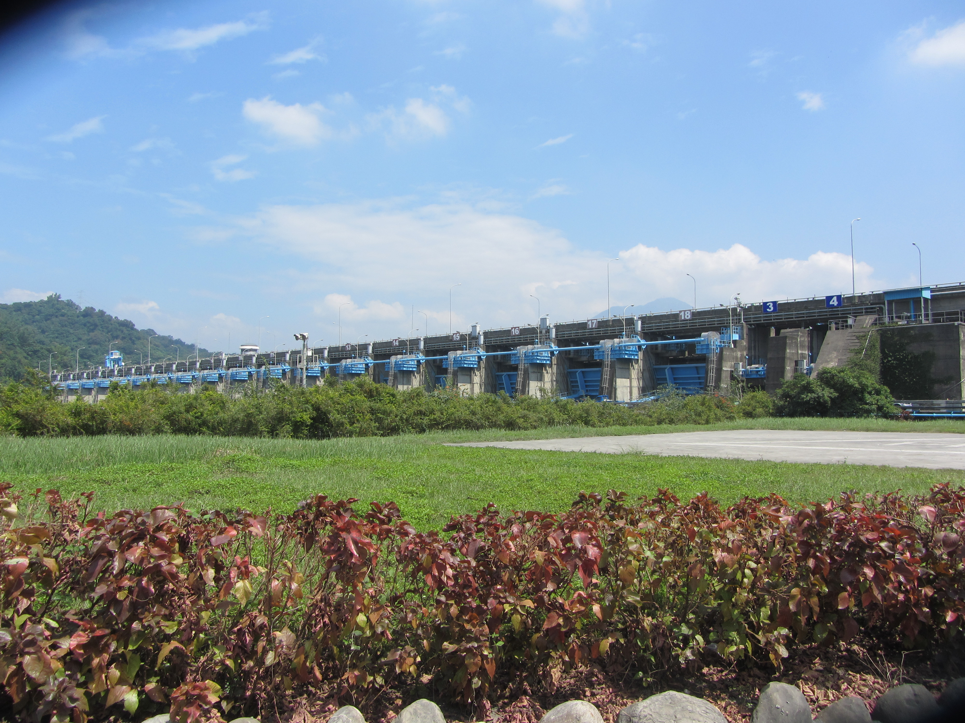 Jiji Diversion Weir